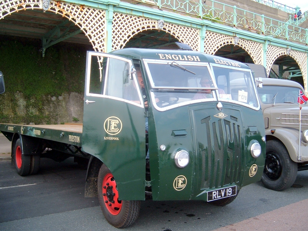 English Electric were one of those firms that seemed to make everything from the worlds most powerful diesel locomotive to one of the worlds fastest supersonic fighters.